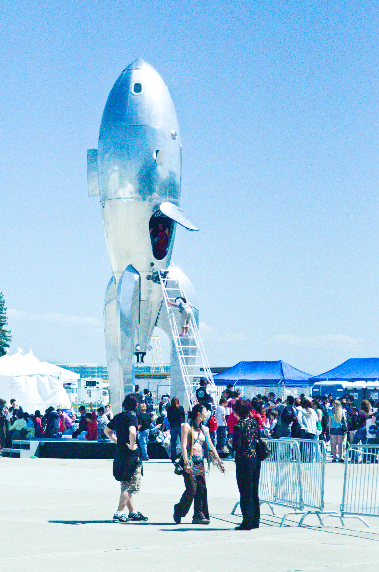 Yuri's Night, NASA Ames Apr-10